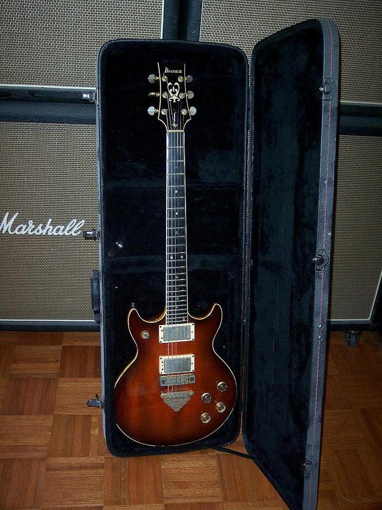 Kurt Schrotenboer's Ibanez Artist (AR) in the case estimated model: 1977 Ibanez Artist 2618 (or later AR100 line, except for metal covered p.u.) Headstock inlay resembles 1974 Ibanez Artist headstock logo was written in block letters as later models